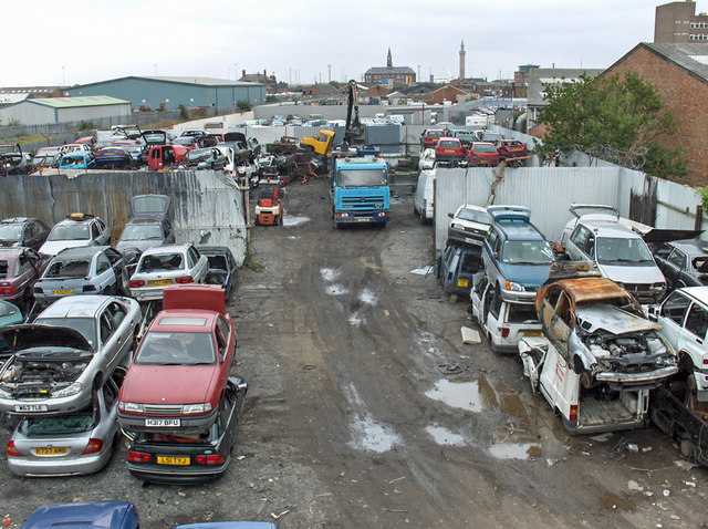 Car Breakers Yard, Railway Street, Grimsby Probably known nowadays as "An End-of-Life Vehicle Recycling Facility". This one does a useful trade in spare parts.